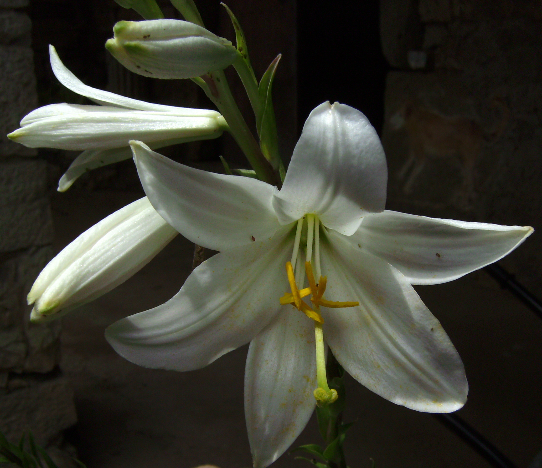 Lilium candidum, cultivated, Castelltallat,Catalonia